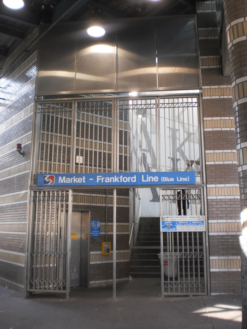 Entrance at Allegheny Station.